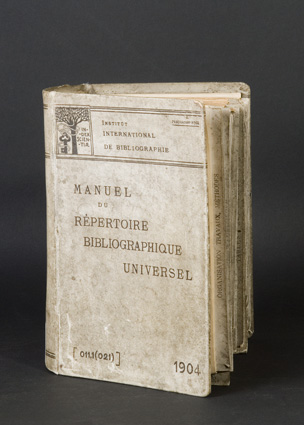 First edition of the Universal Decimal Classification. This is proof of publication from 1904. The first edition came out in 1905